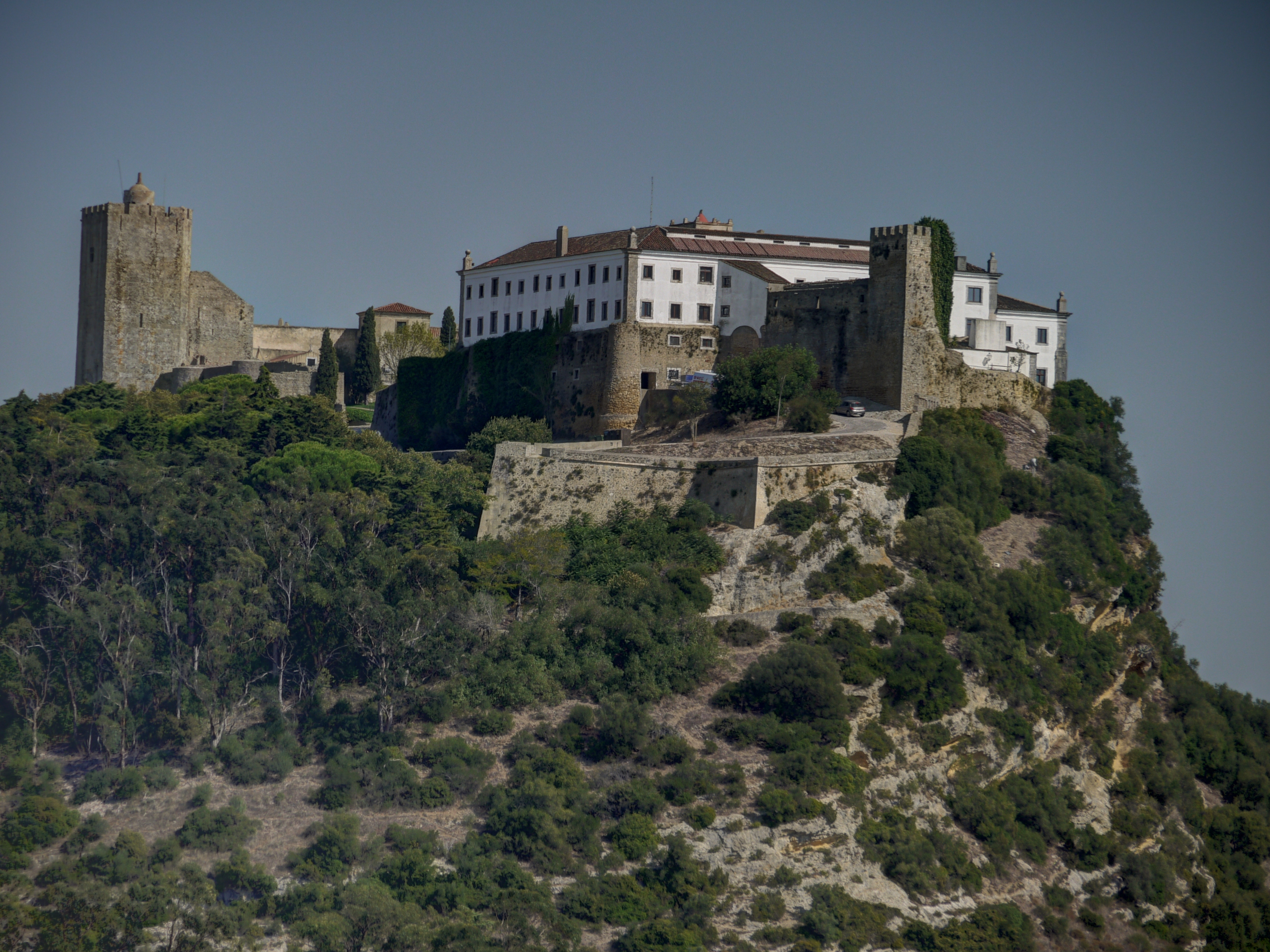 This file was uploaded for Wiki Loves Monuments in Portugal with the unique identifier 70171.